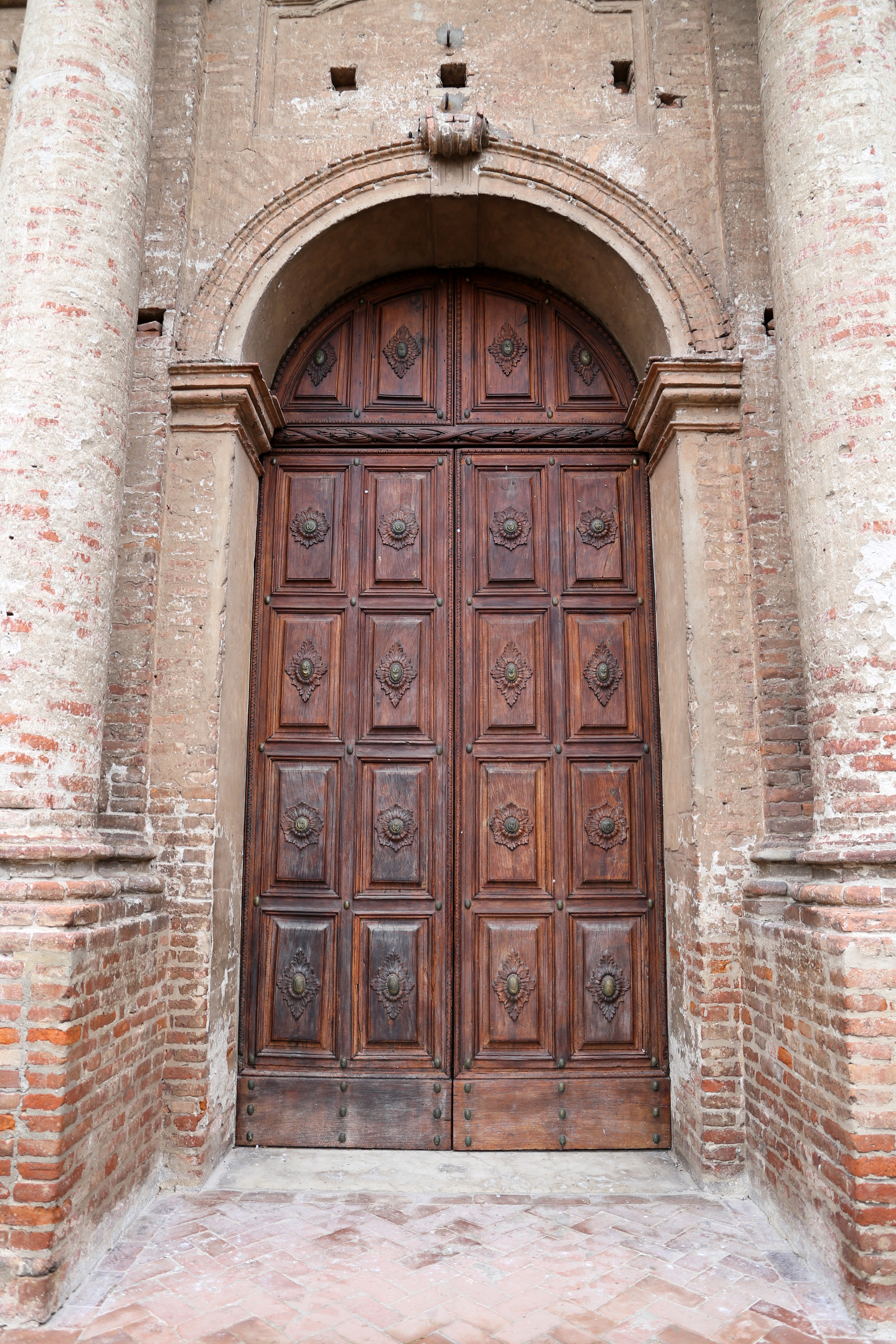 Sant'Antonio Abate (Sabbioneta)